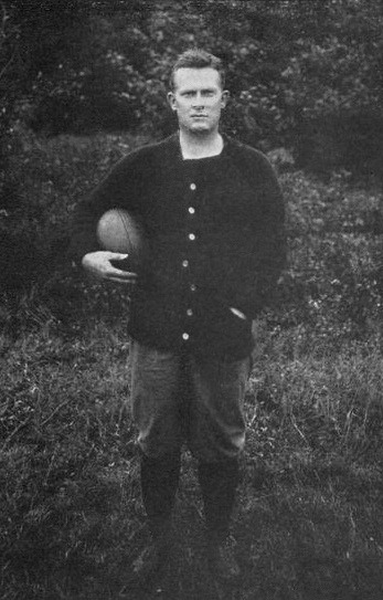 Pitt football coach Joseph Duff